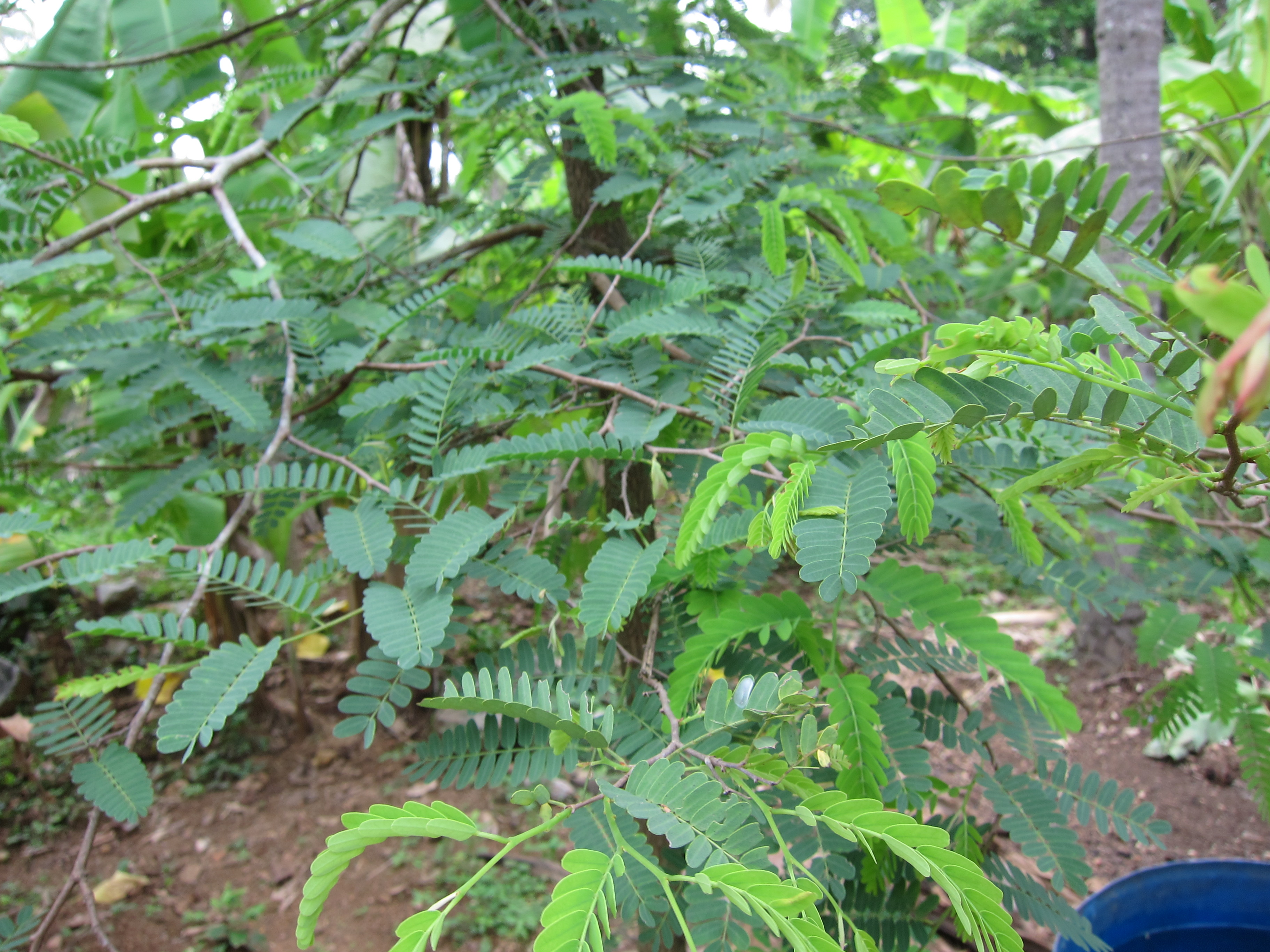 Tamarind - വാളൻപുളി